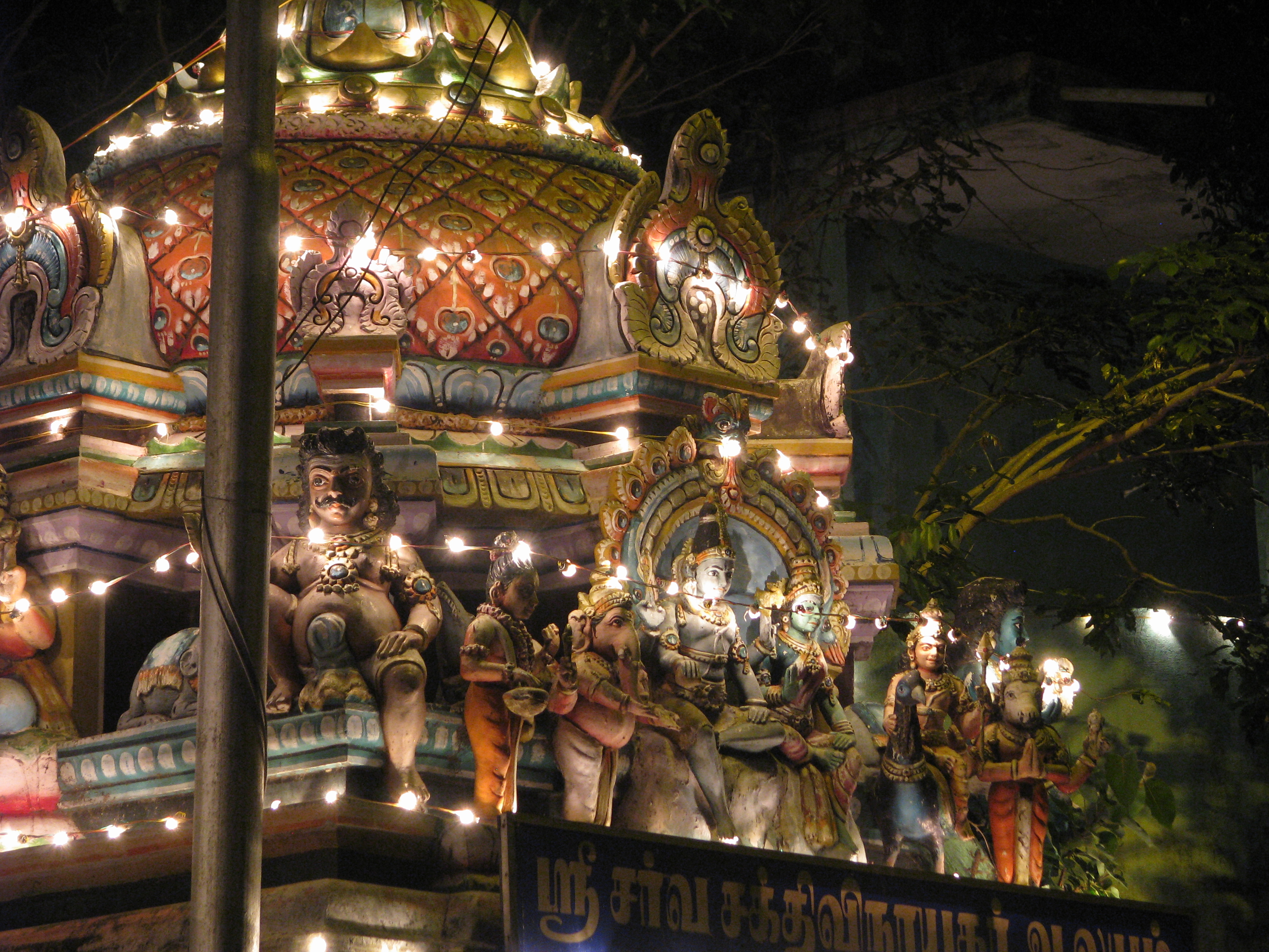 Local temple all lit up for Kathigai Deepam, the local Tamil festival of lamps.